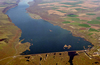 Aerial view of Dry Falls Dam, located at the south end of Banks Lake.